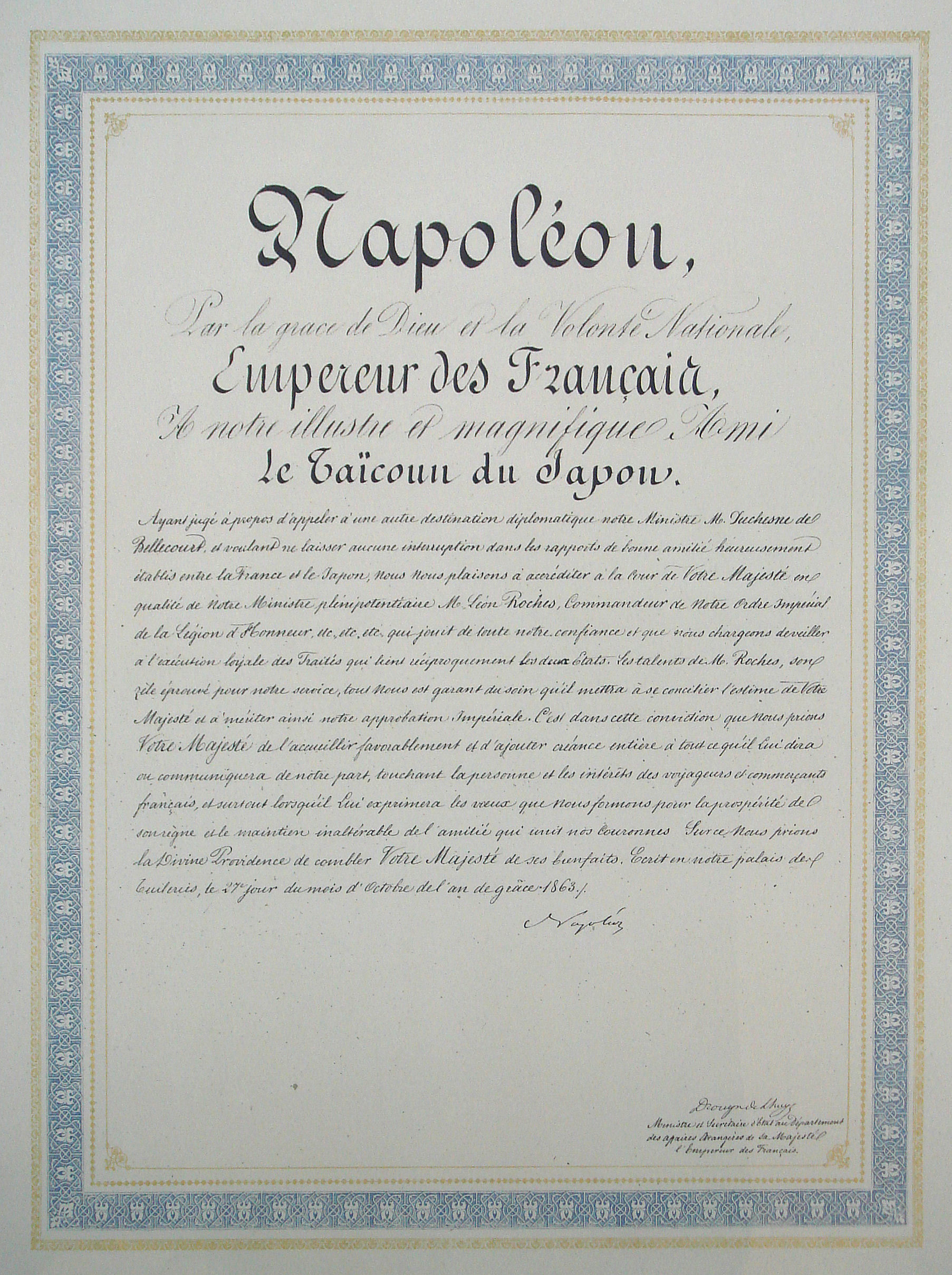 Letter_of_Napoleon_III_to_the_Japanese_Shogun_to_introduce_Leon_Roches_in_replacement_of_Duchesne_de_Bellecourt.